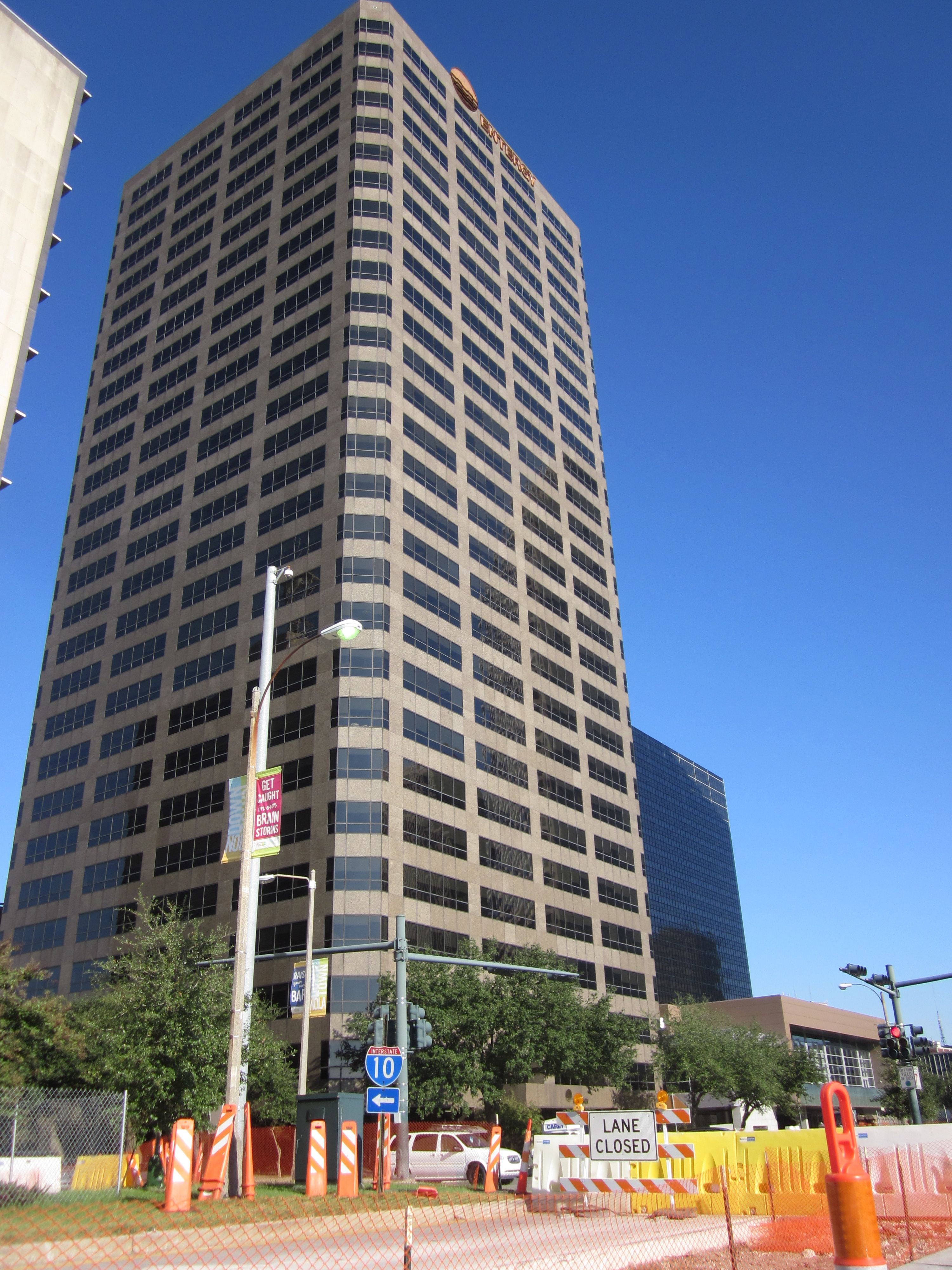 New Orleans. View towards Entergy Tower on Loyola Avenue. Street neutral ground is torn up for laying of tracks for new streetcar line. Beyond the tower is the newly reopened Hyatt Hotel.